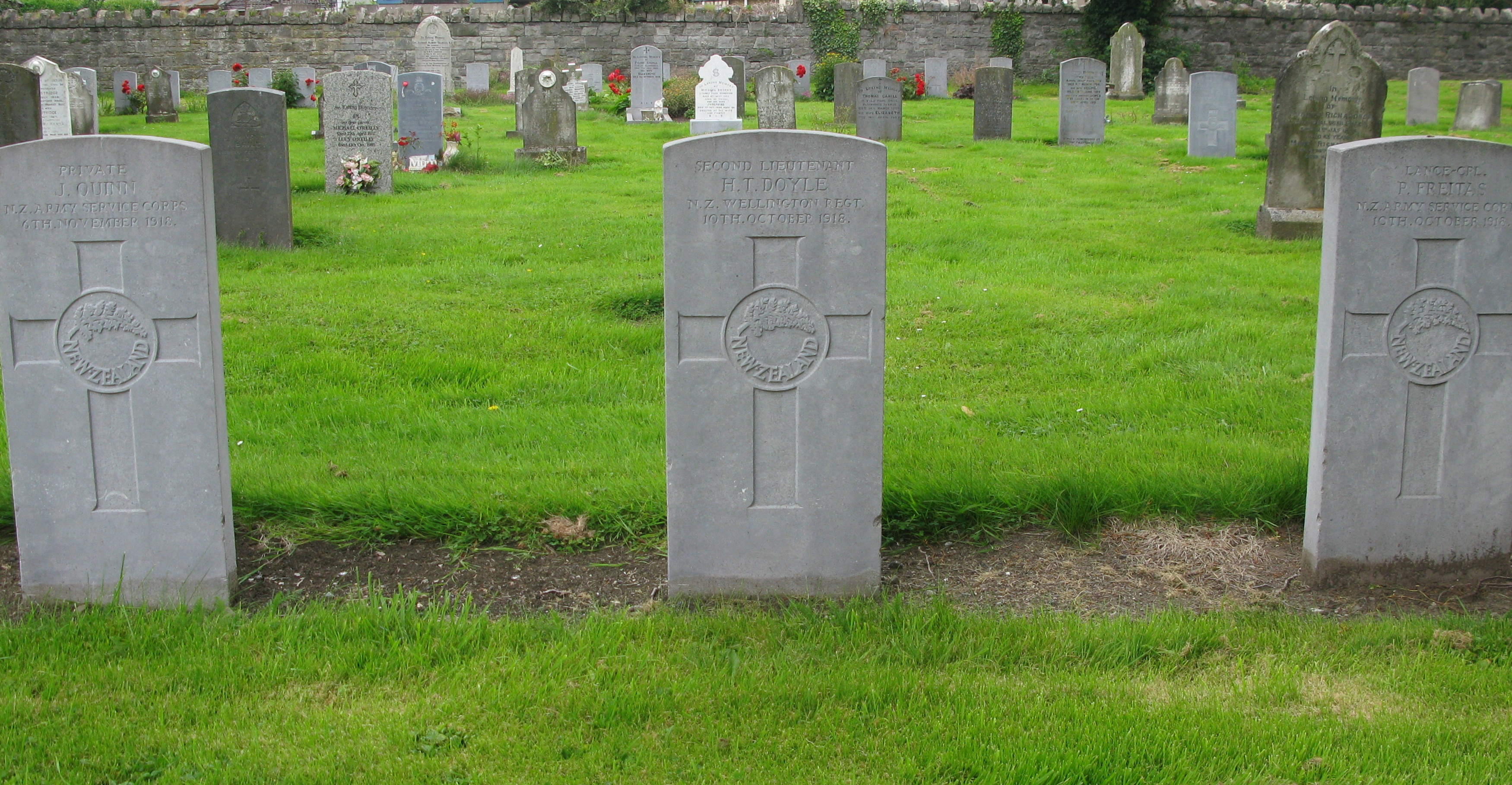 Headstones to three New Zealand casualties of World War I at Grangegorman Military Cemetery, Dublin